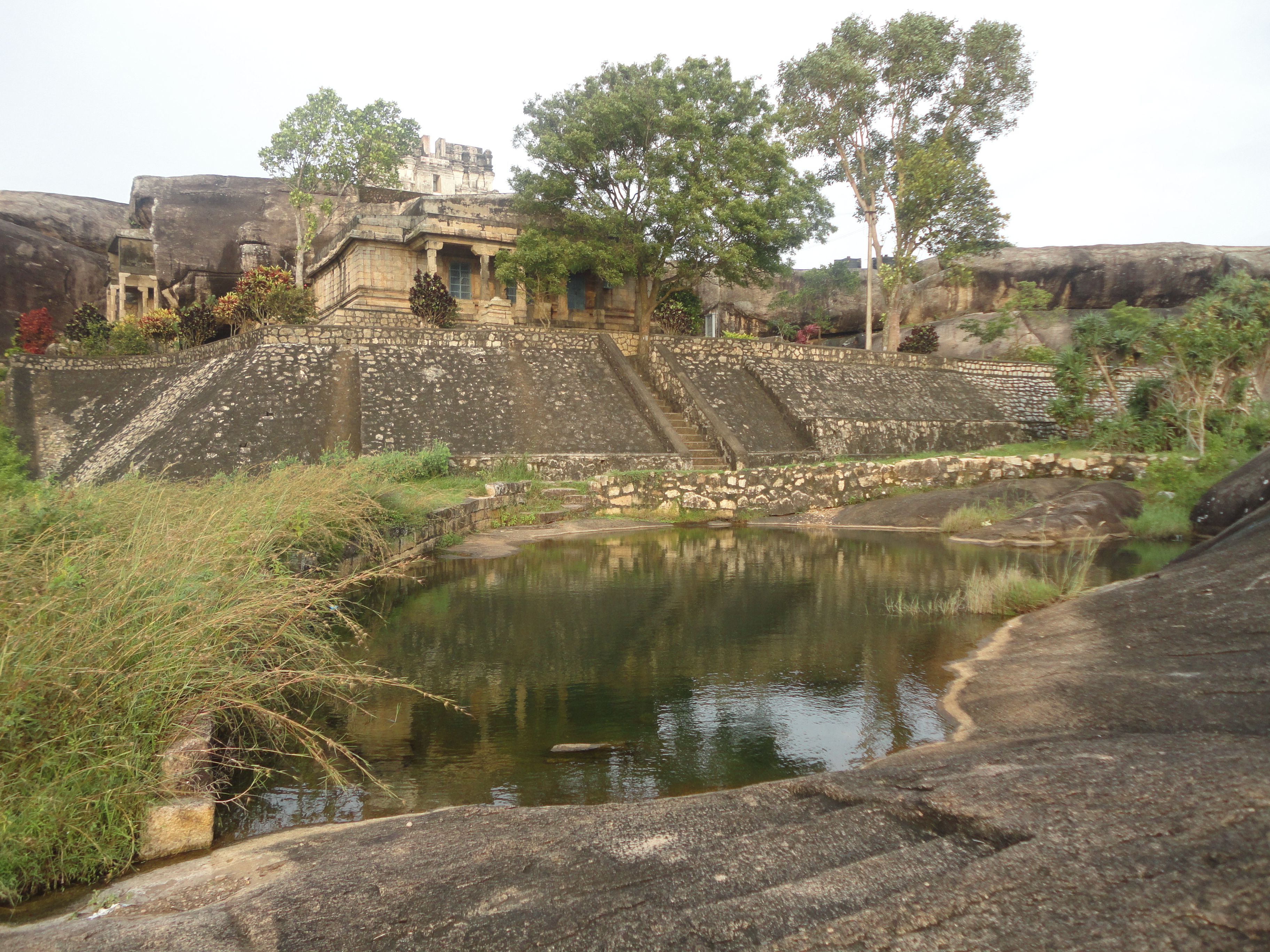 Chitharal jain temple in Kanyakumari district, Tamilnadu, India